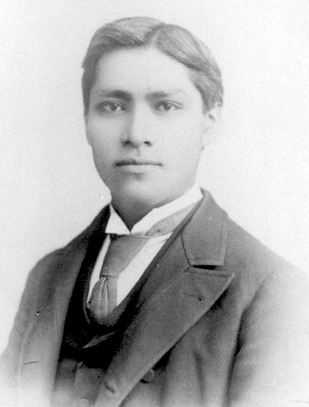 This image is cropped from w: File:Wassaja.jpg